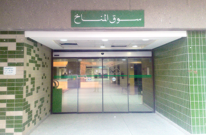 Souq Al Manakh, Kuwait